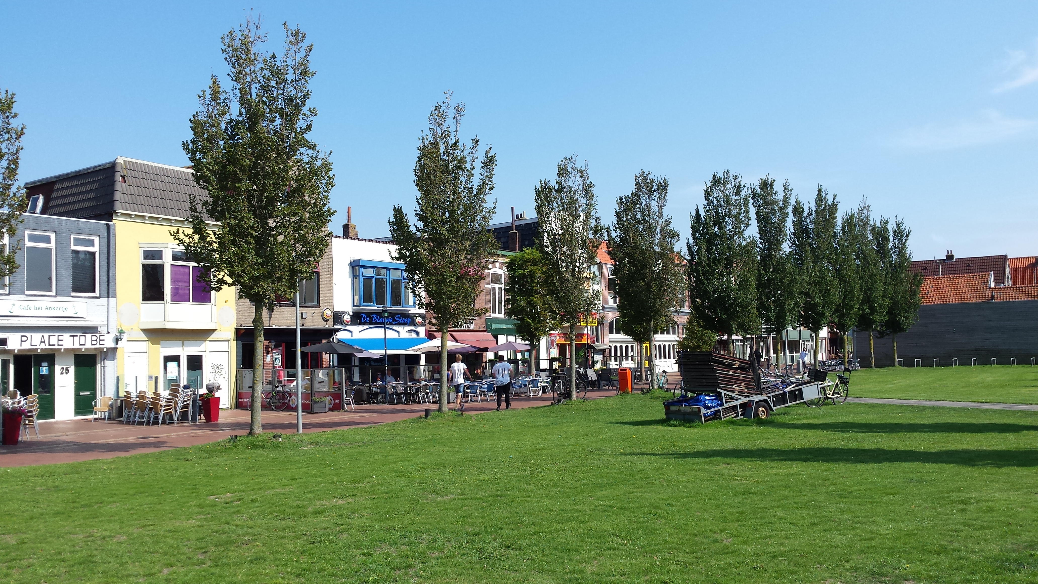 Den Helder - Pub area, Koningstraat